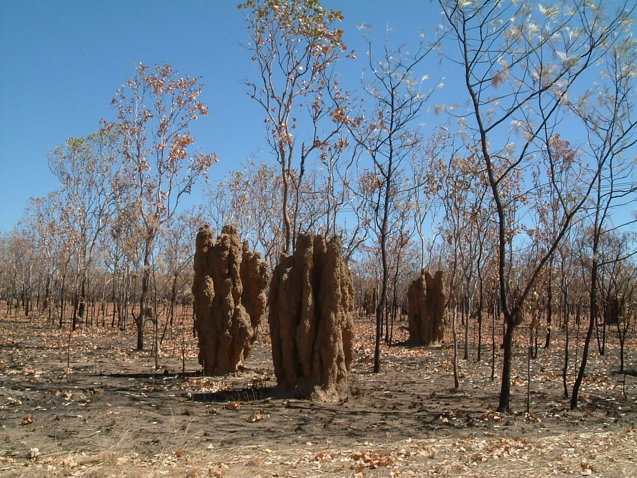 Termite mounds near Pine Creek NT